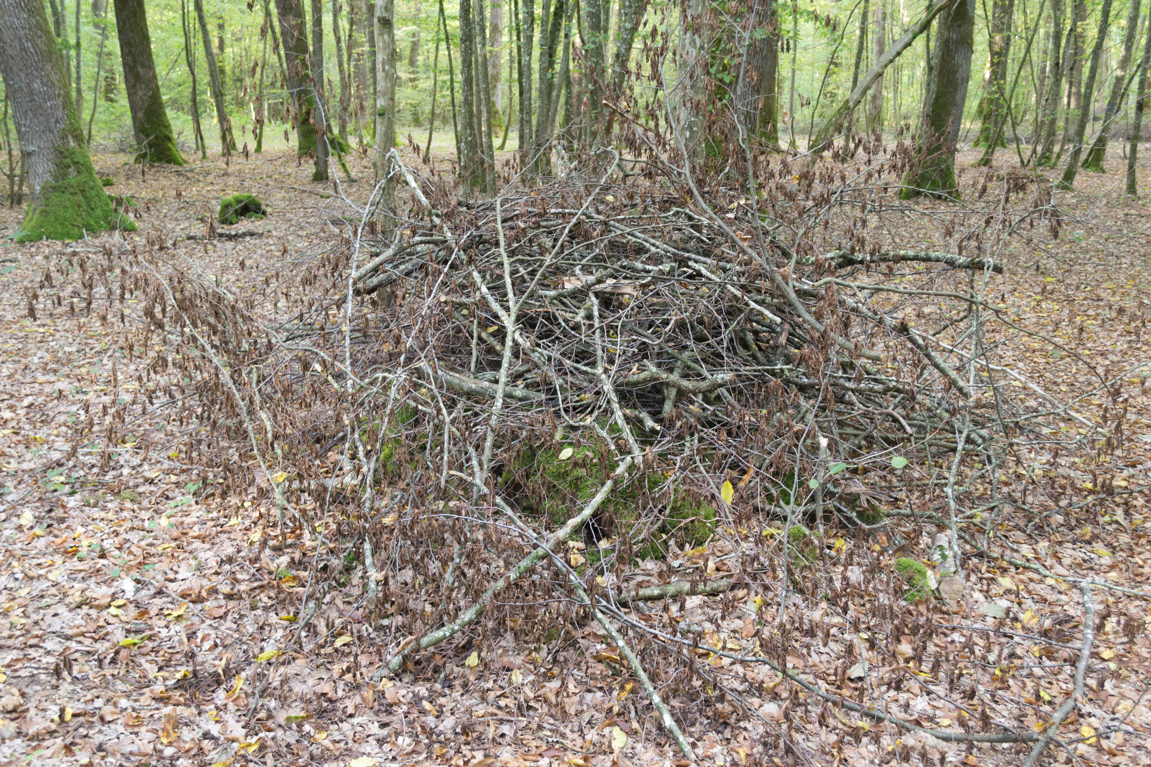 Stacked coarse woody debris in France: although it is now asked to let them spread out after logging, numerous lumberjacks, most of them "affouagistes", keep stacking them, deeming the forest "cleaner" this way.